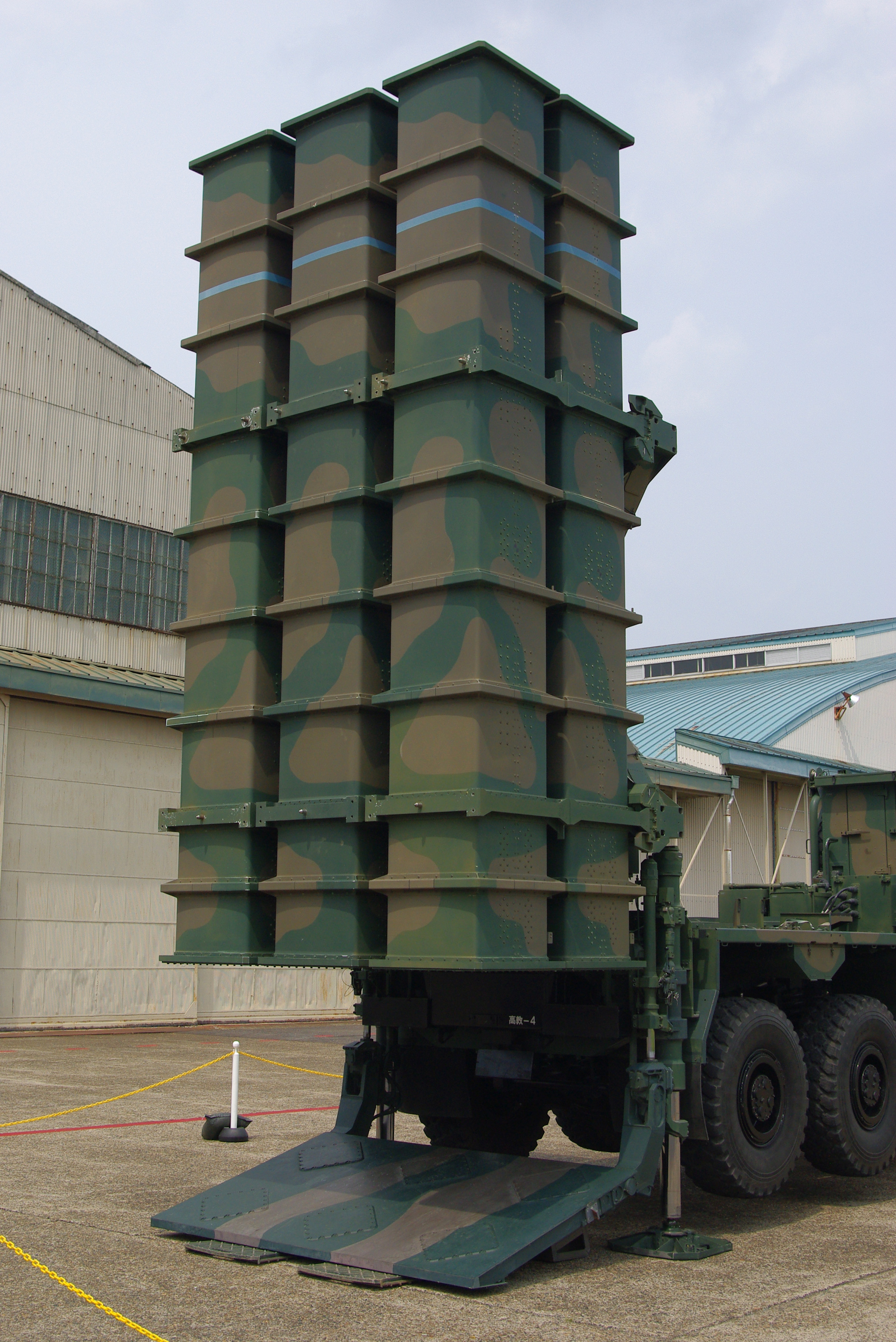 JGSDF Type03 SAM launcher,Air Defence Artillery School unit.Taken by Los688,in Camp Kasumigaura,Japan,at 20-May-2012.PD-self ja:03式中距離地対空誘導弾 発射機（発射姿勢） 高射学校・高射教導隊 2012年05月20日、霞ヶ浦駐屯地で撮影。